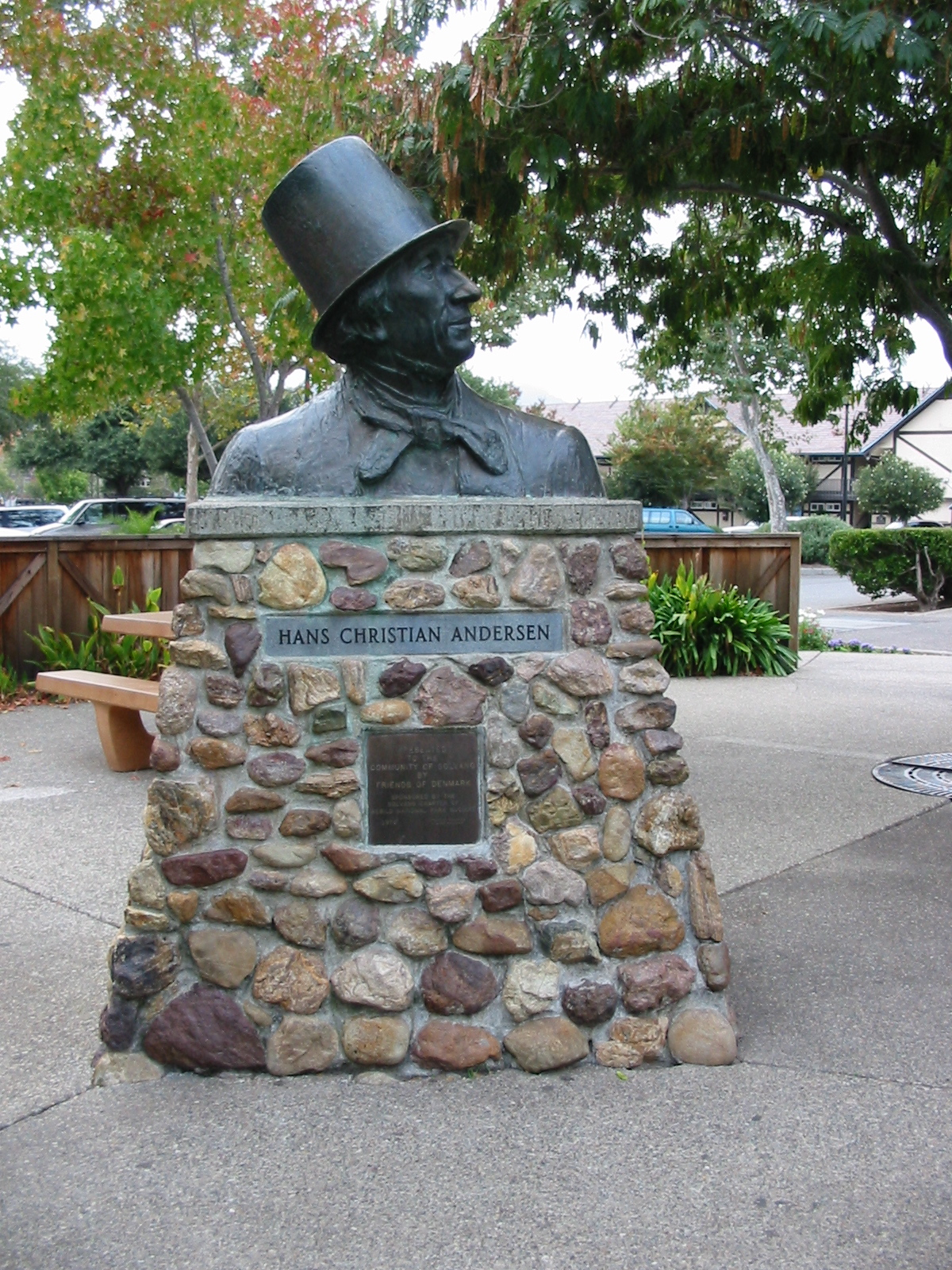 Solvang, California - statue of Hans Christian Andersen